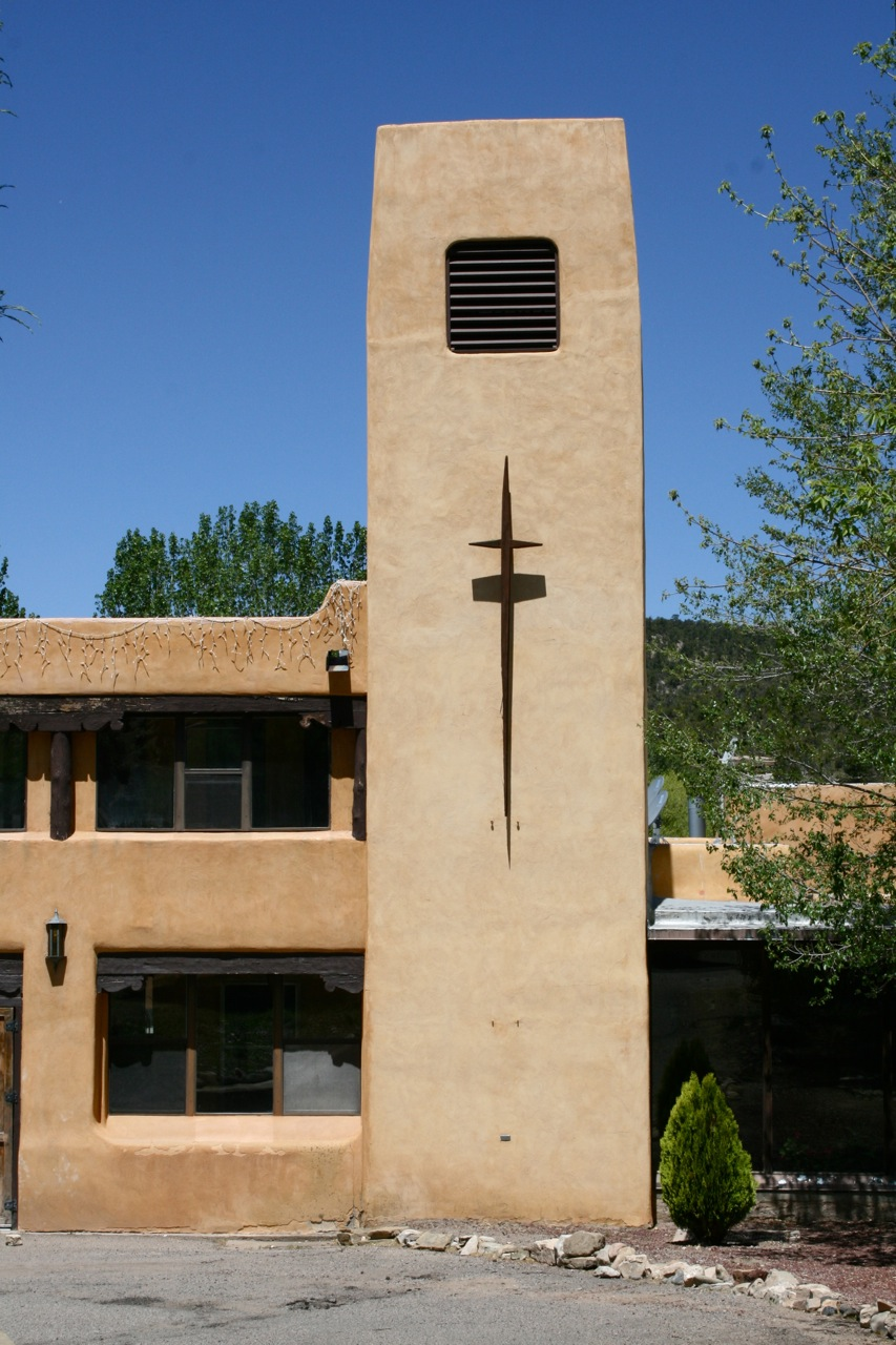 Benedictine Abbey / Monastery Tower. Our Lady of Guadalupe Abbey in Pecos, NM